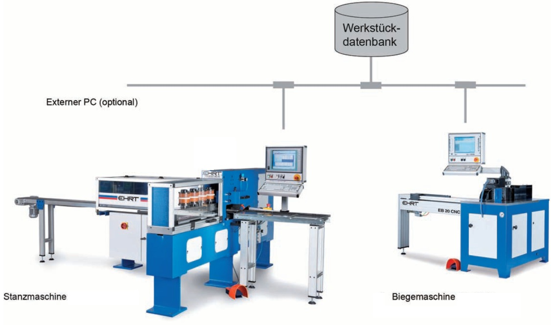 shared network connecting machines, PC workstations, internet etc. (Windows based)